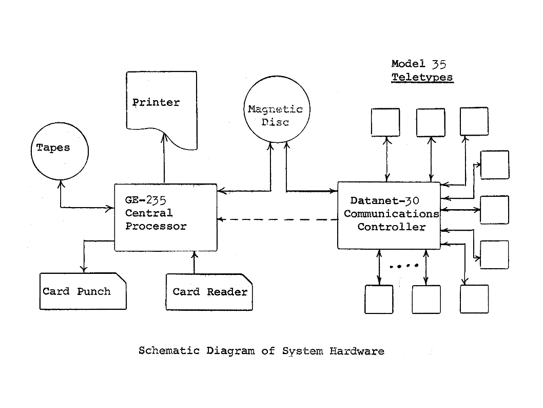 DTSS version 1 schematic, representing its GE-235 and DATANET-30 hardware. From: The Dartmouth Time-Sharing System: A Brief Description, by the Computation Center, Dartmouth College, Hanover, New Hampshire, October 19, 1964.